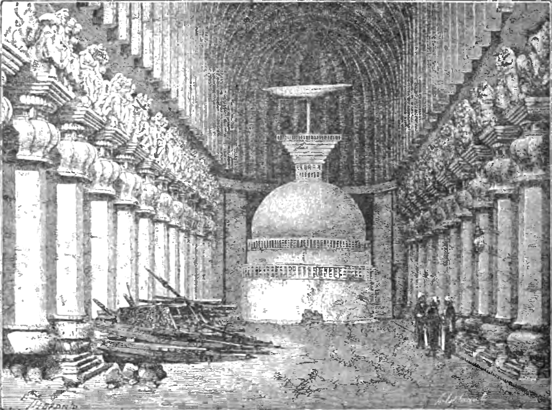 History of India (1906) - Vol 1 Author Romesh Chunder Dutt]Editor A.V. Willians JacksonPublisher The Grolier SocietyTitle History of India (1906) - Vol 1]Volume 1Language EnglishPublication date 1906publication_date QS:P577,+1906-00-00T00:00:00Z/9Place of publication London